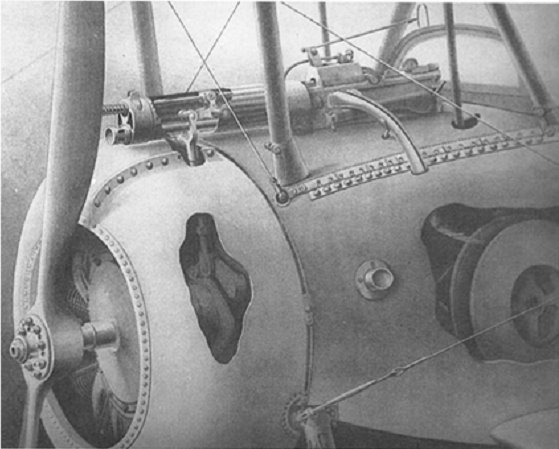 Nieuport 17 with machine gun synchronised by Alkan-Hamy system